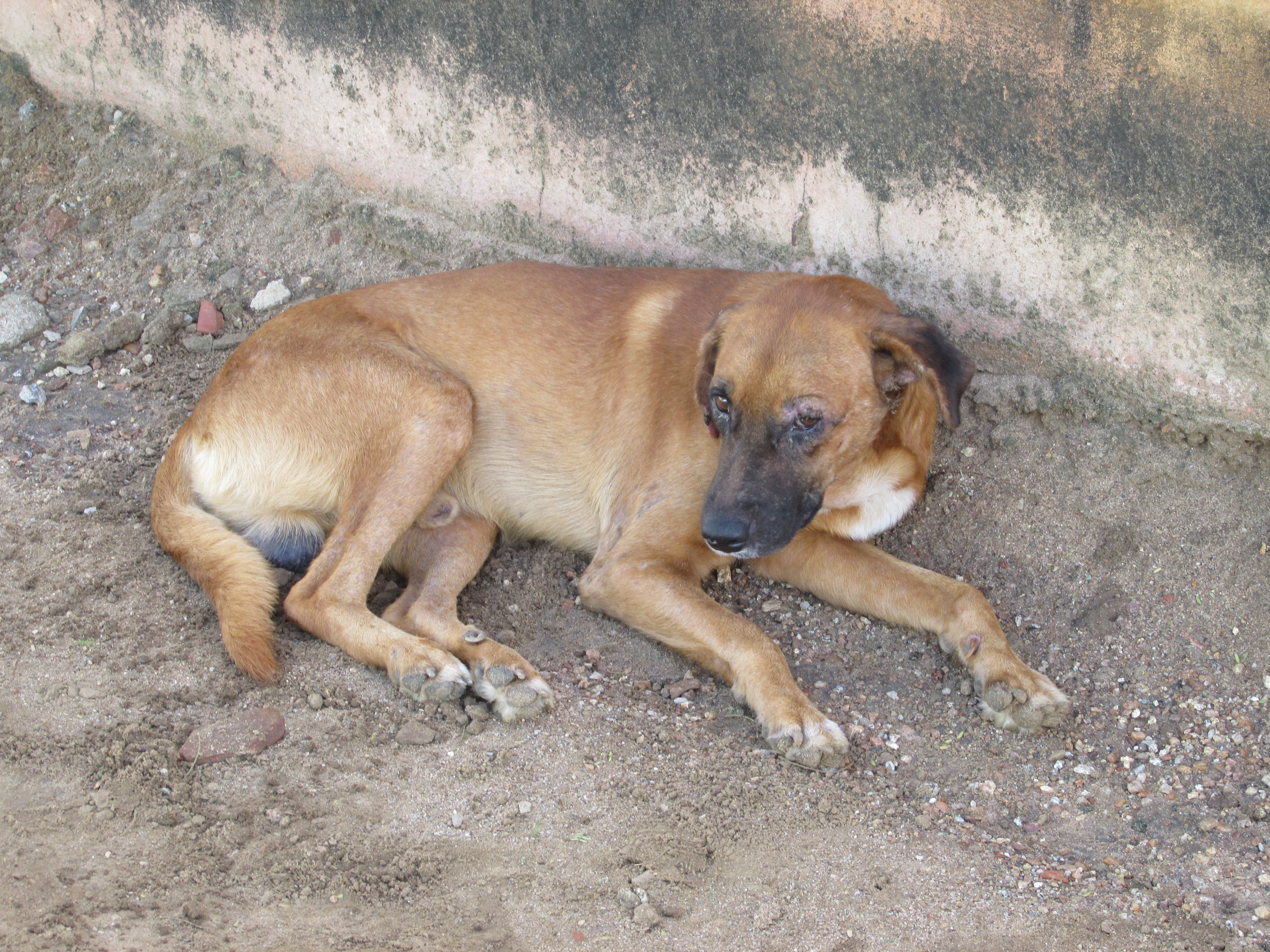 Dog with multiple dewclaws/extra toes. Stray dog.